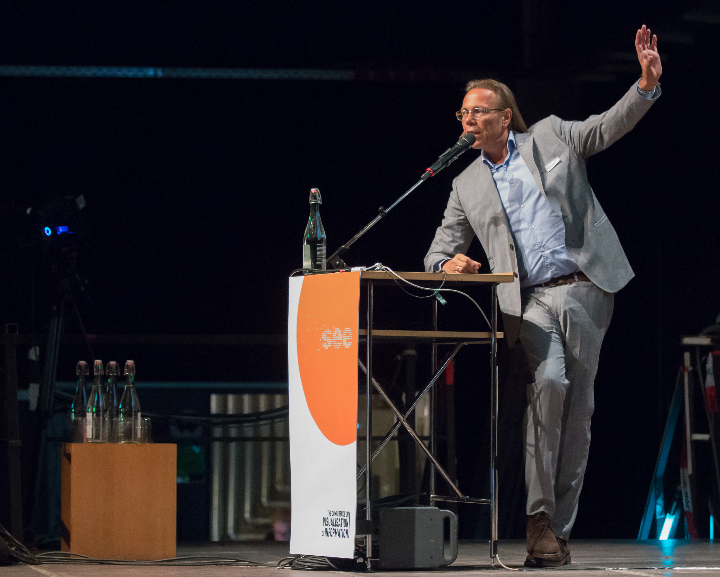 Harald Welzer at the See-Conference 2015 in the Schlachthof Wiesbaden